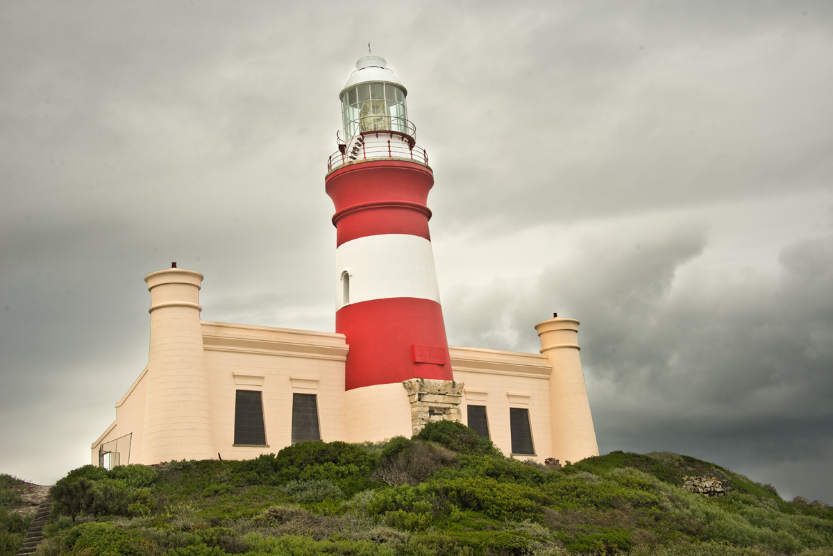 Lighthouse at Cape Agulhas in the Western Cape of South Africa on a cloudy day in summer.